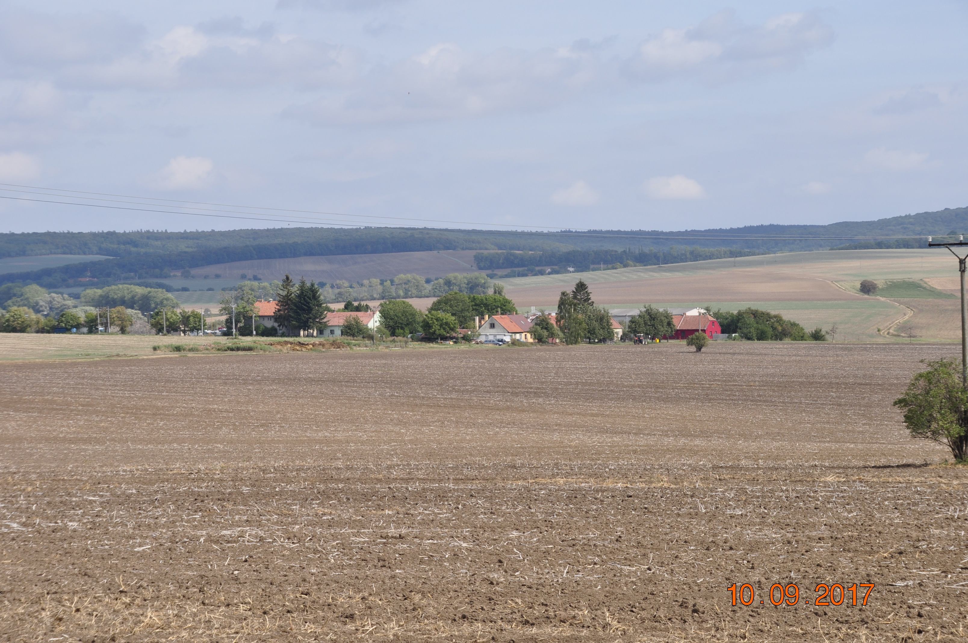 Milonice, Vyškov District, Czechia.